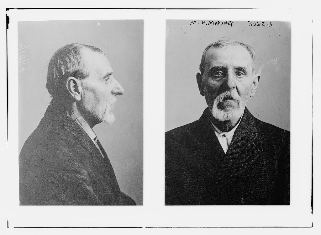 Michael P. Mahoney in 1914